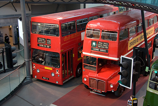 London Transport Museum RM1737 and DMS1 wait at traffic lights in the museum. The Routemaster was the last traditional doubledecker design for London Transport, entering revenue service in February 1956. DMS1 was the first of the new 'Londoner' buses, intended to introduce one man operation across London. They entered service in 1970 and lasted little more than 20 years. The full story can be read at . Meanwhile, just a couple of hundred yards from the museum you can still ride on a Routemaster in daily service.